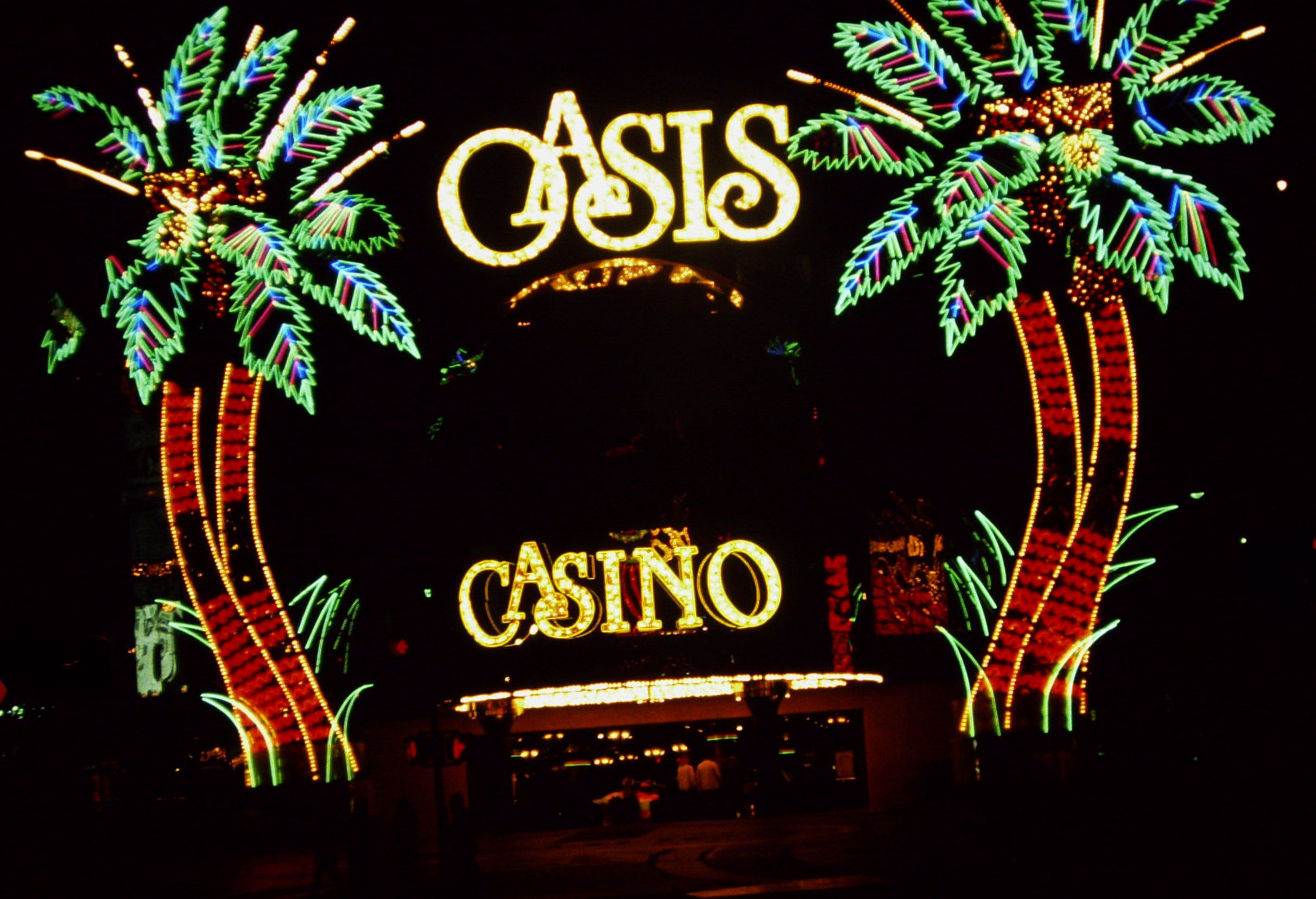 Neon signs on the facade of "The Oasis Casino in The Dunes" Hotel, Las Vegas, Nevada, USA as of 1990.